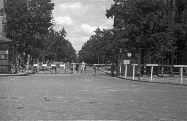 Month before WarsawUprising: Aleje Szucha street with German bunker on the right side of the street viewed from Unii Lubelskiej Square. Behind the barriers lies German district sometimes called “German Ghetto”.